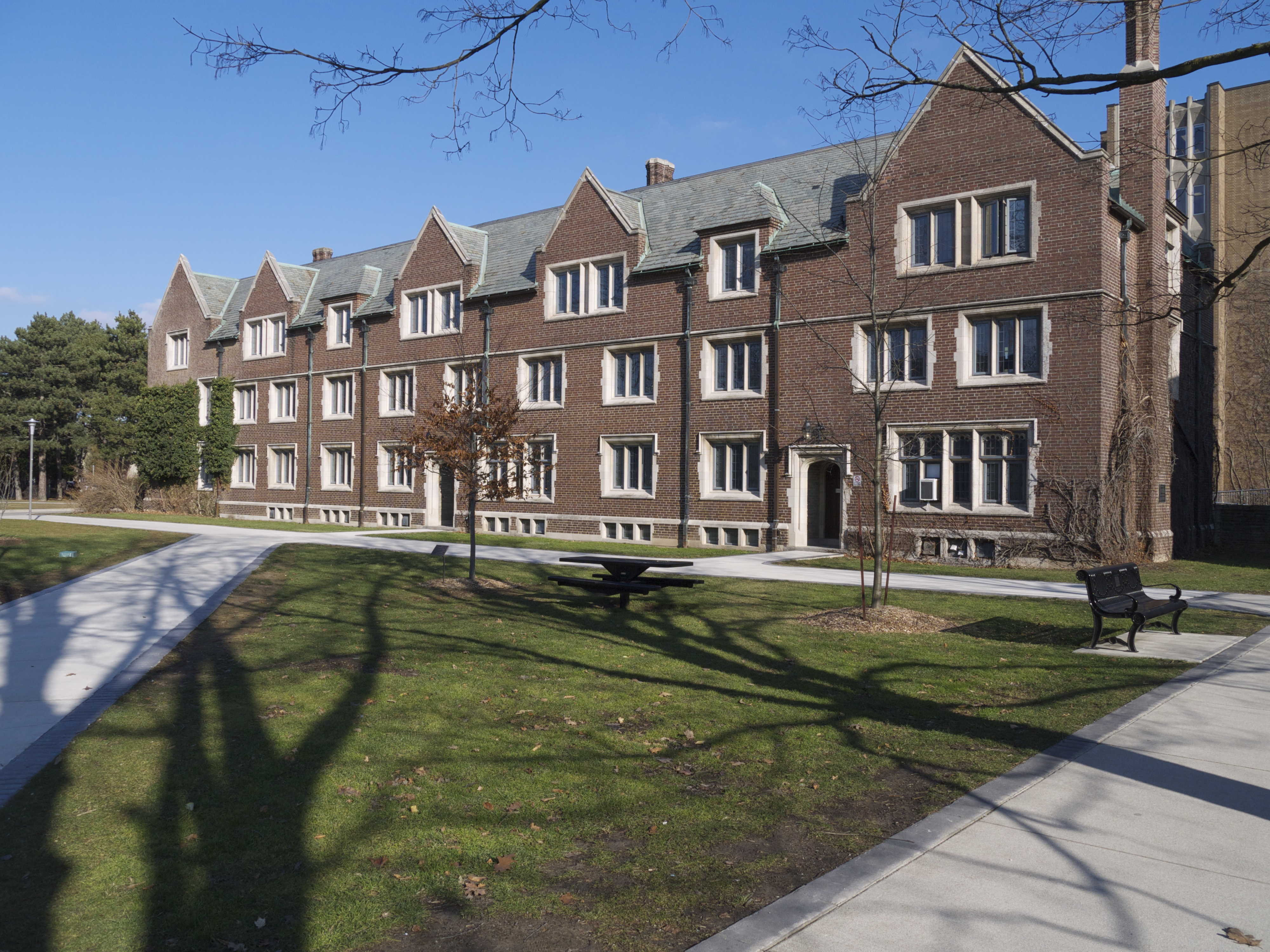 Edwards Hall on McMaster University campus in Hamilton, Ontario.